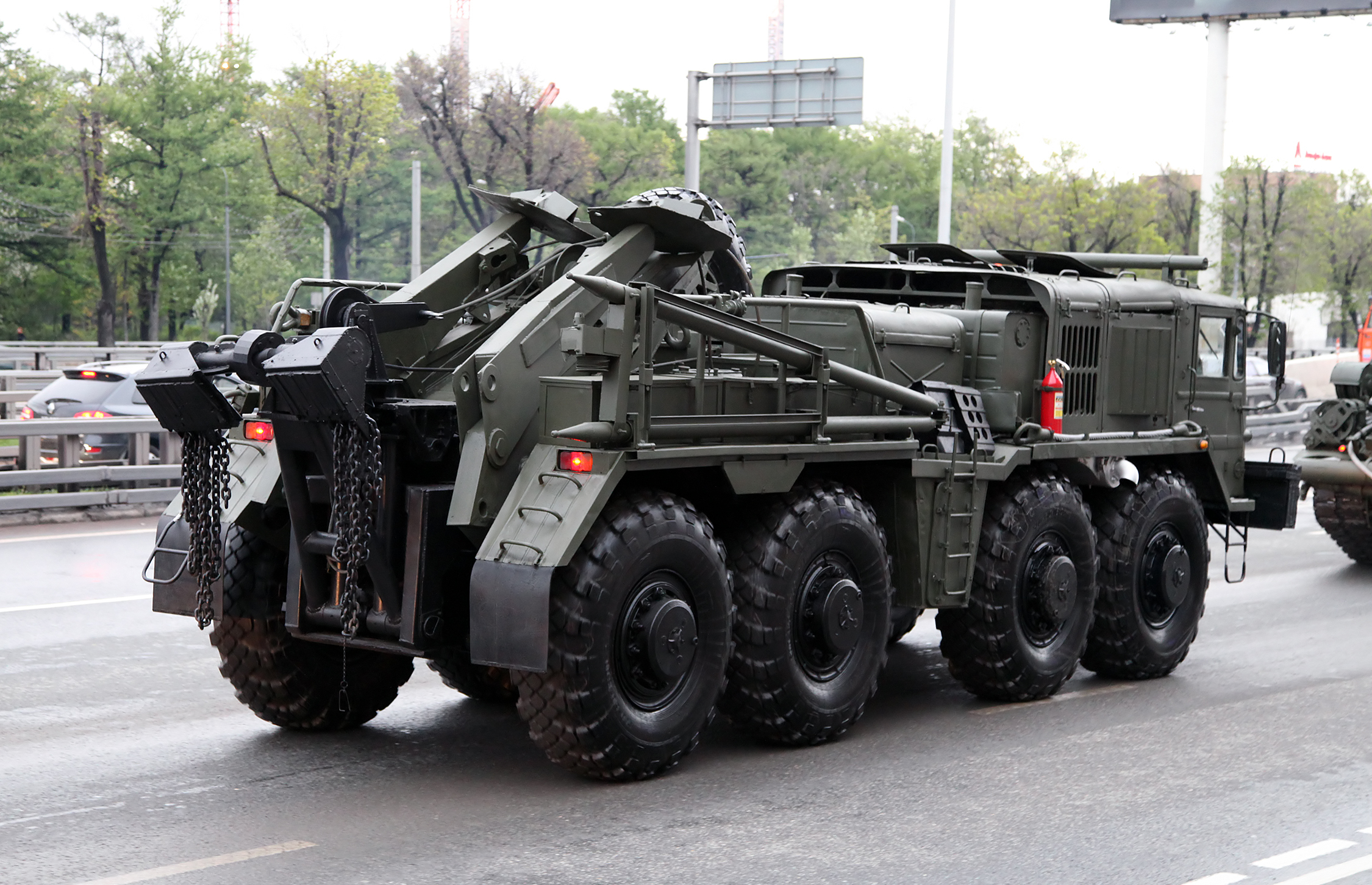 Wheeled evacuation carrier KET-T